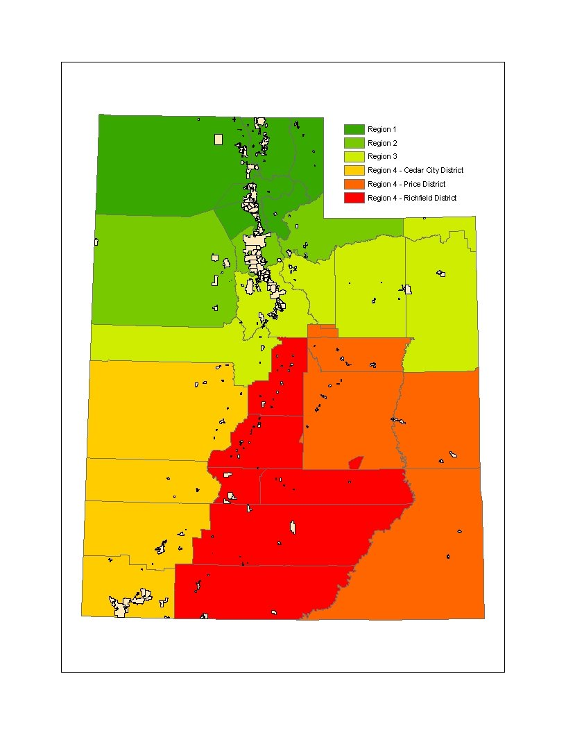 Utah Regions, according to the Utah Department of Transportation.